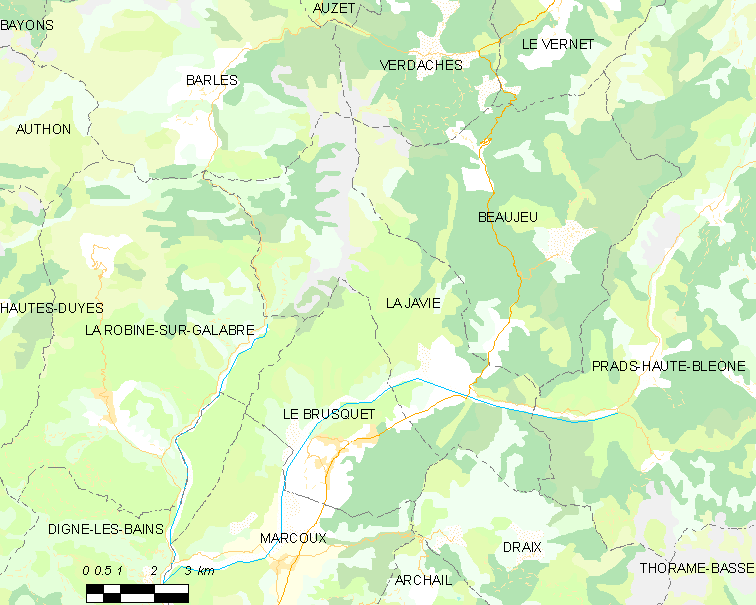 Map commune FR insee code 04097.png Légende